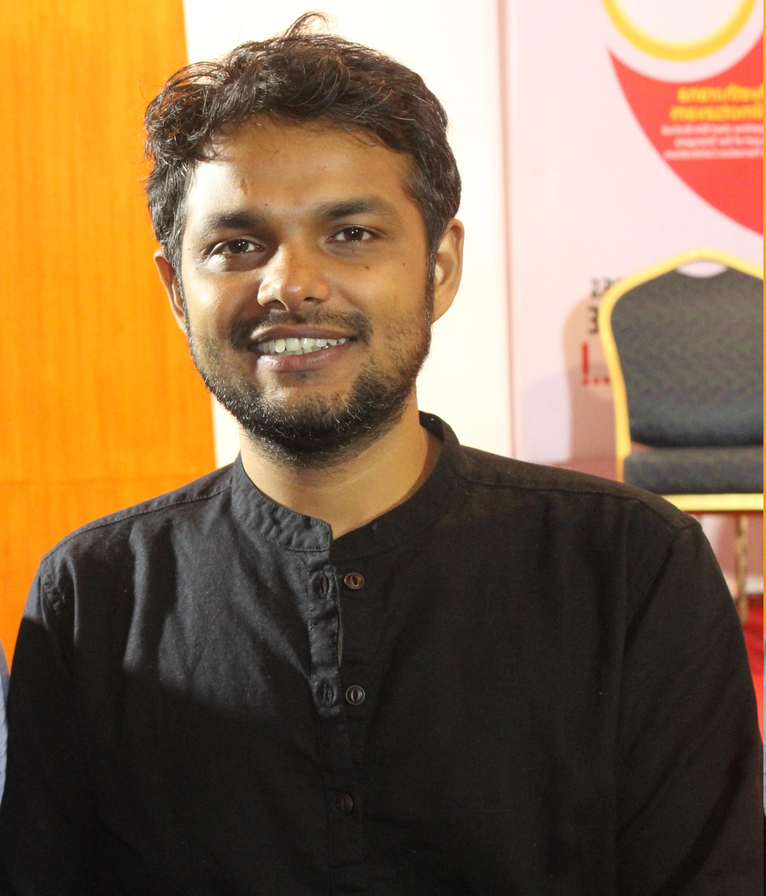 Vivek Sagar in Cinivaram, Ravindra Bharathi, Hyderabad